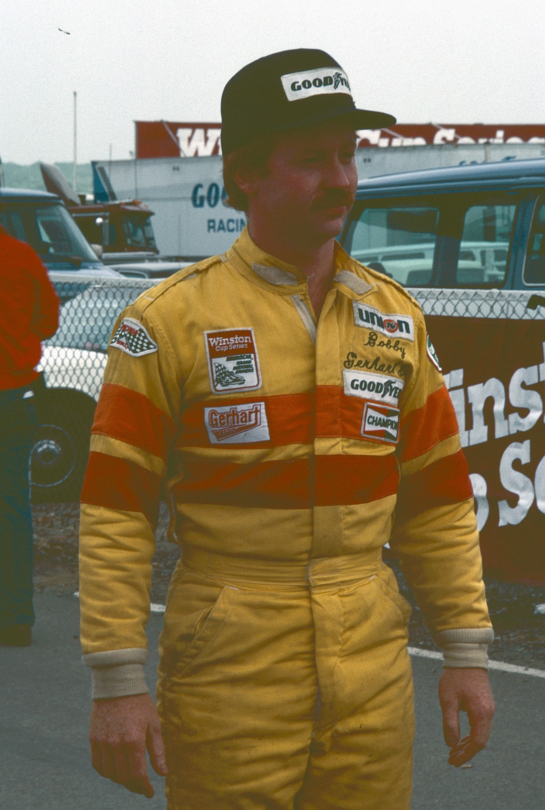 NASCAR driver Bobby Gerhart at a Winston Cup event.